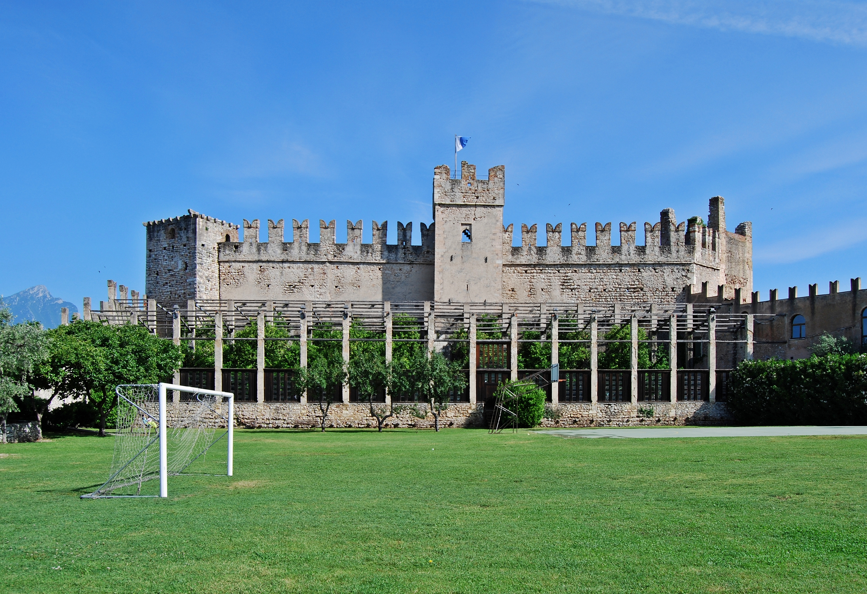 Scaliger castle of Torri del Benaco at the eastern coast of the Lake Garda.